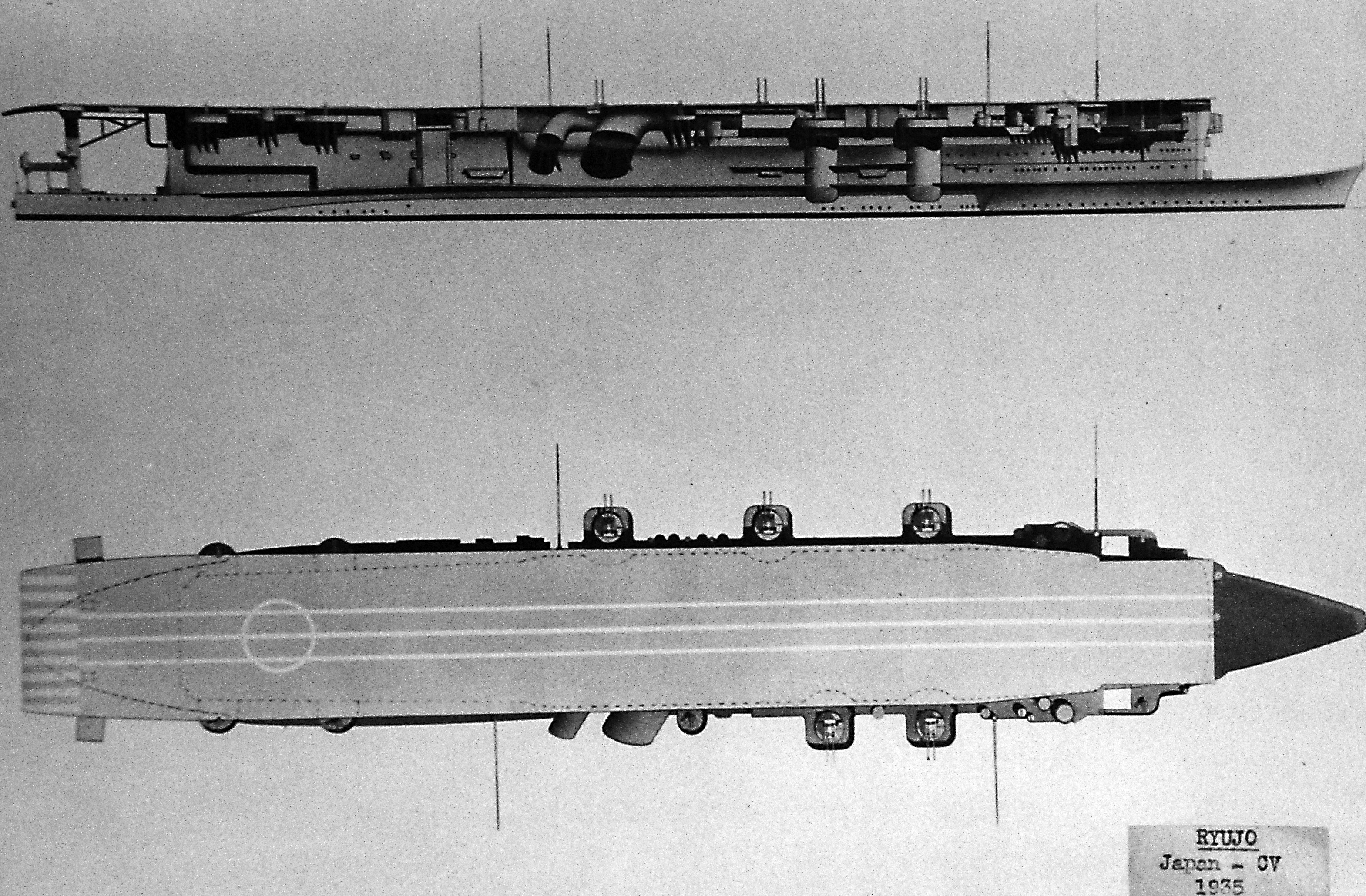 Lot-2406-5: Japanese aircraft carrier Ryujo, diagrams, 1935. Ryujo was sunk during the Battle of the Eastern Solomons, August 24, 1942. Halftone copy from the files of the Department of Naval Intelligence, June 1943. Courtesy of the Library of Congress. (2016/05/12).